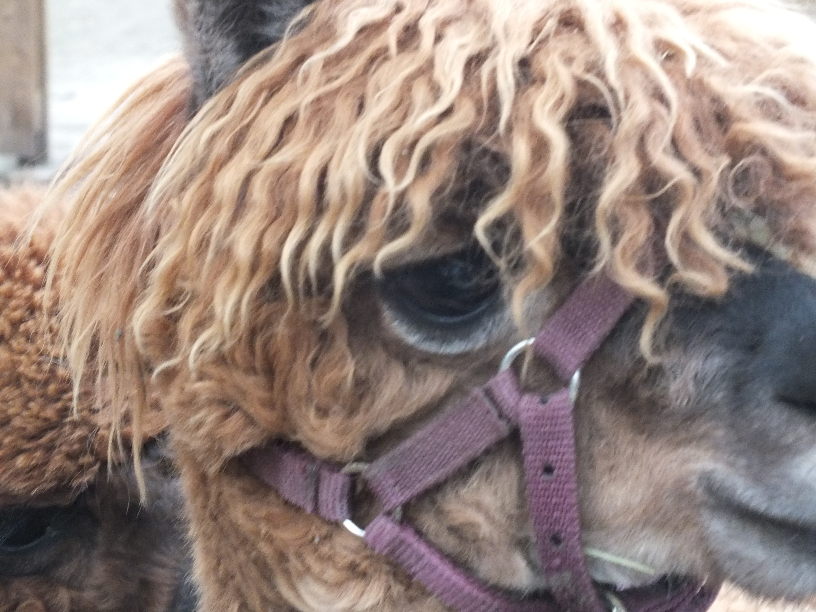 Jesmond Dene is one of the Ouseburn Parks, near Jesmond in Newcastle upon Tyne. The Land was given to William Armstrong as a wedding present in 1835. He planted hundreds of shrubs and laid miles of paths, built a grotto, many bridges and a waterfall on the Ouse Burn. Today it is a public park. It was refurbished with a Heritage Lottery. Grant. Visitors to Pets Corner are two Alpaca.